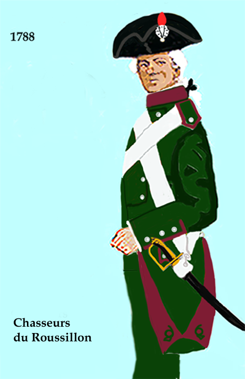 Uniforms of the french rifles of foot in 1788